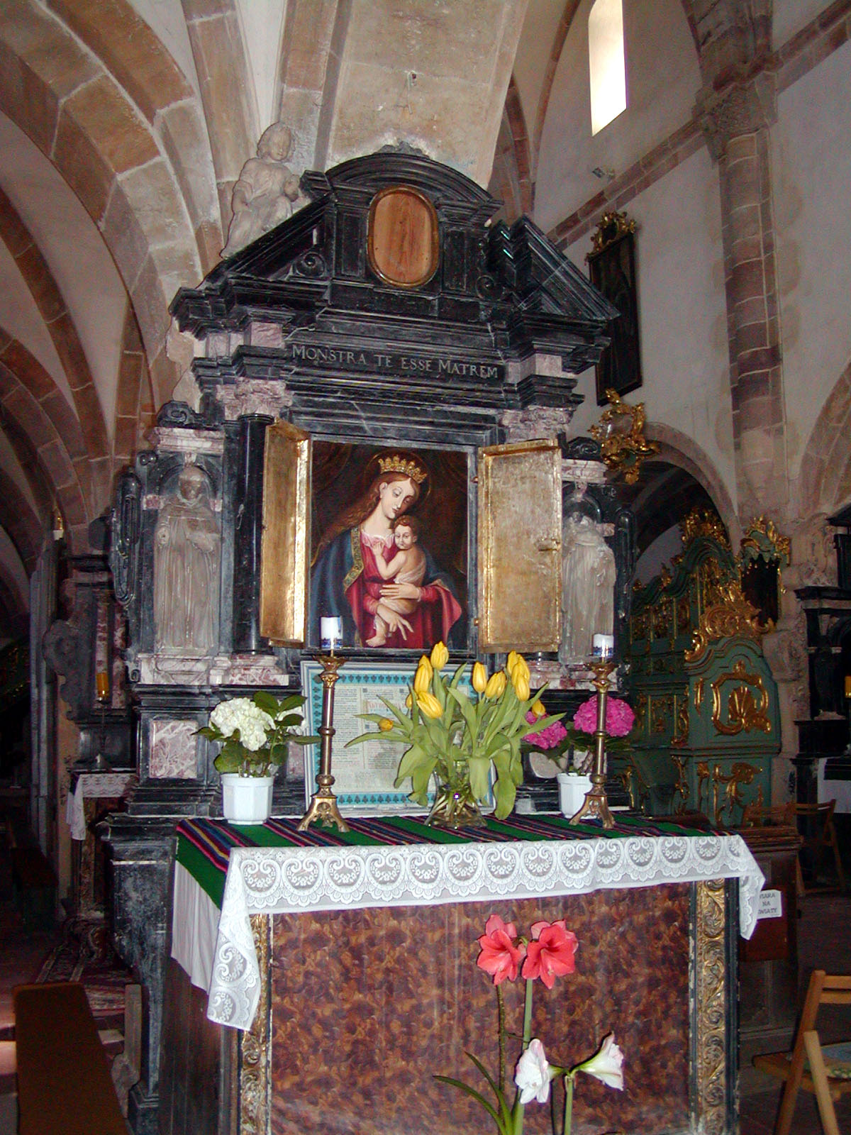 Saint Thomas of Canterbury church in Sulejów